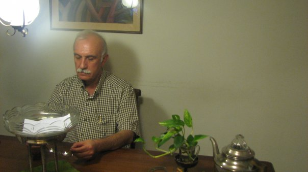 Mohsen Ebrahim, Iranian translator of Italian language, poet, writer, and intellectual